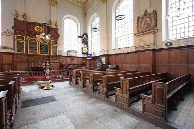 St Benet Paul's Wharf, Queen Victoria Street, London EC4 - East end